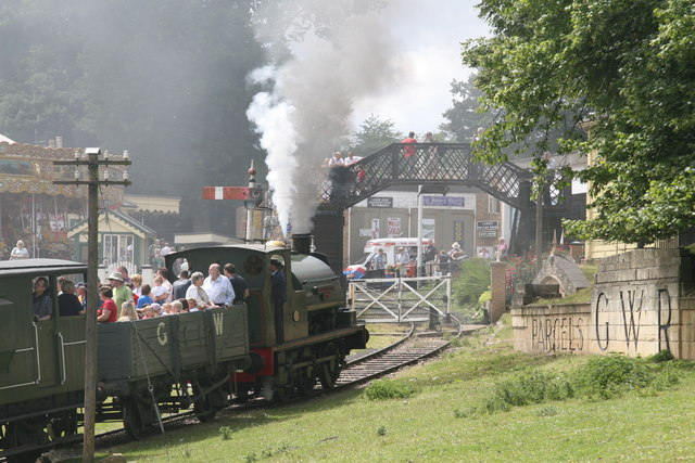 Fawley Hill Railway This is a private but not secret railway that belongs to a private individual and is operated by a volunteer society. Access is by invitation only. The loco is a 1913 Hudswell Clarke 0-6-0 ST. It was delivered to Sir Robert McAlpine and used on a series of major projects including Wembley Stadium.